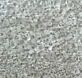 surface of GALVALUME® BIEC International, Inc.